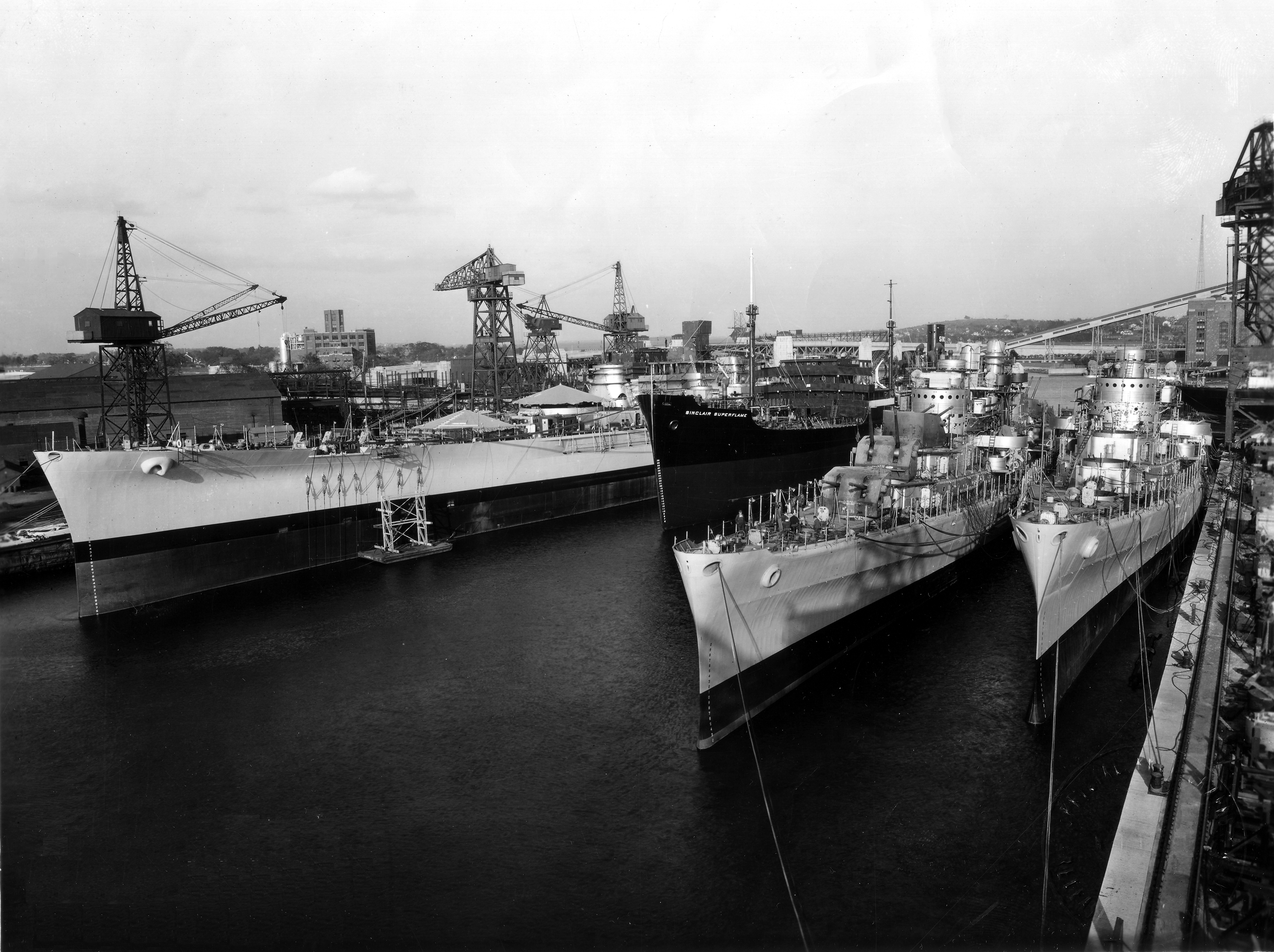 Ships under construction at the Fore River Shipyard, Massachusetts (USA) on 8 October 1941 (l-r): Hull No. 1478: USS Massachusetts (BB-59); Hull No. 1490: Sinclar Superflame; Hull No. 1479: USS San Diego (CL-53); Hull No. 1480: USS San Juan (CL-54).